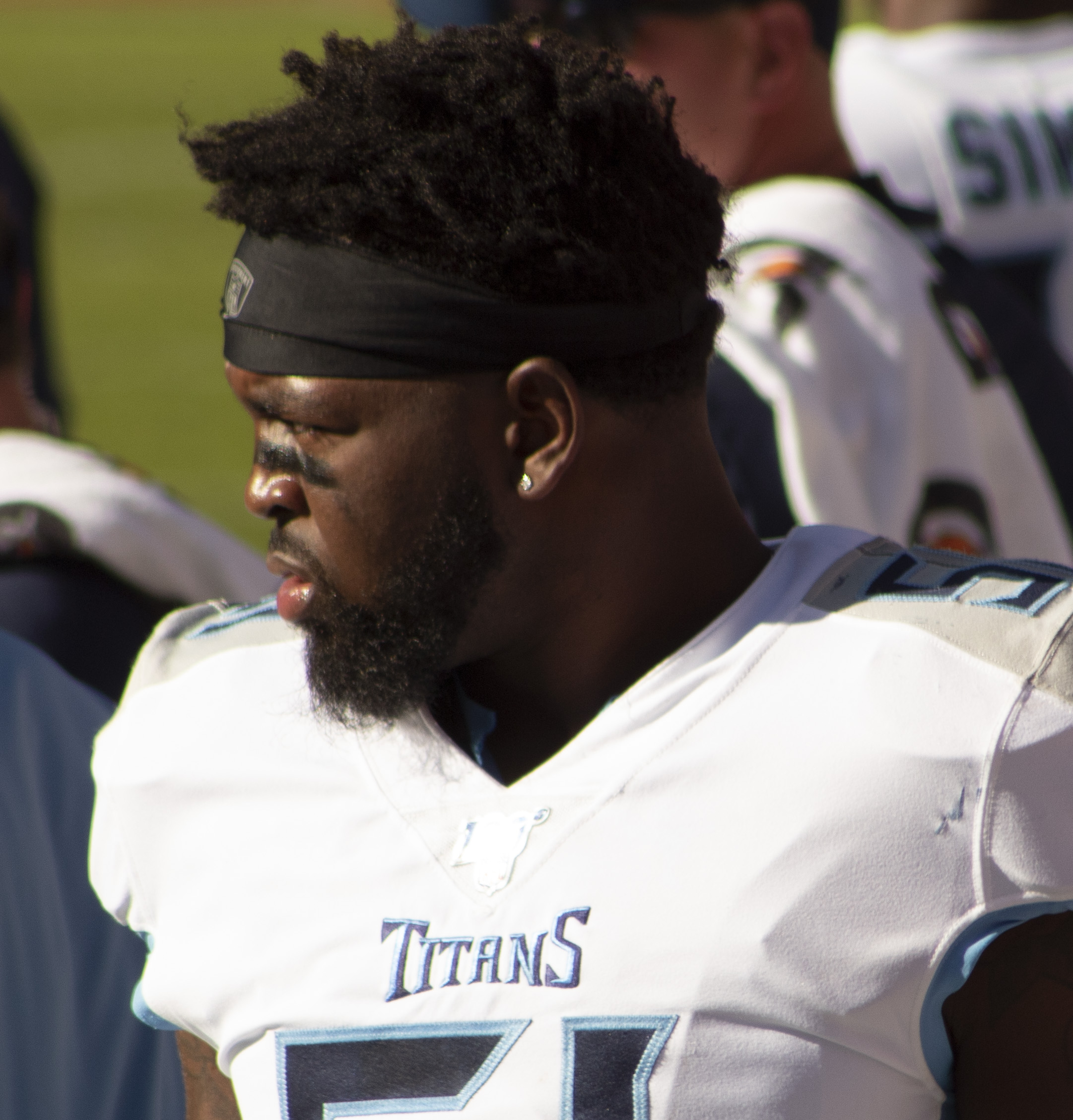 David Long Jr. with the Tennessee Titans on October 13, 2019